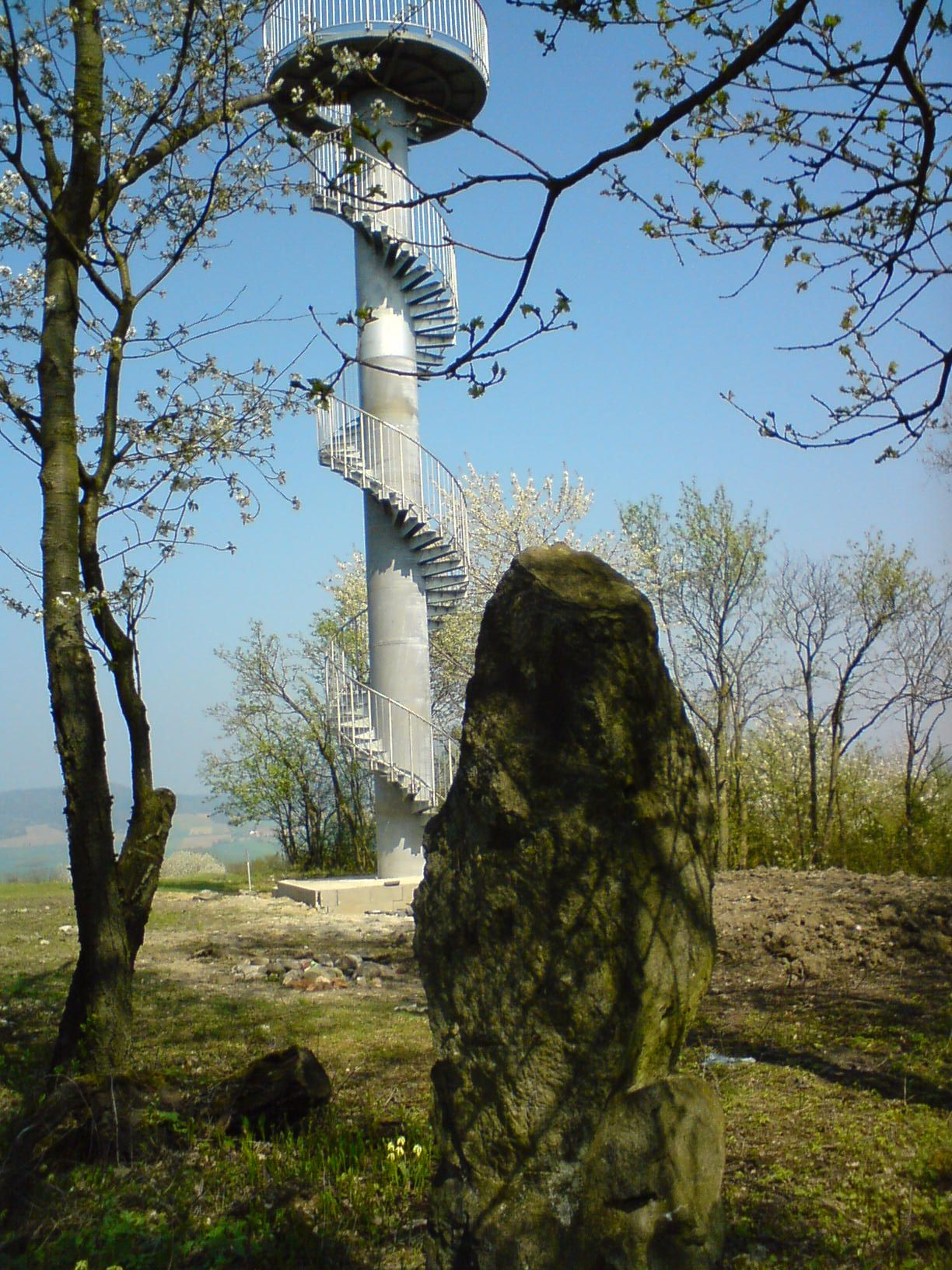 Observation tower from 2008 in Hořidla near Chotiněves (Czech Republic, Litoměřice District) Česky: Rozhledna z r. 2008 v hořidlech u Chotiněvsi (okres Litoměřice)